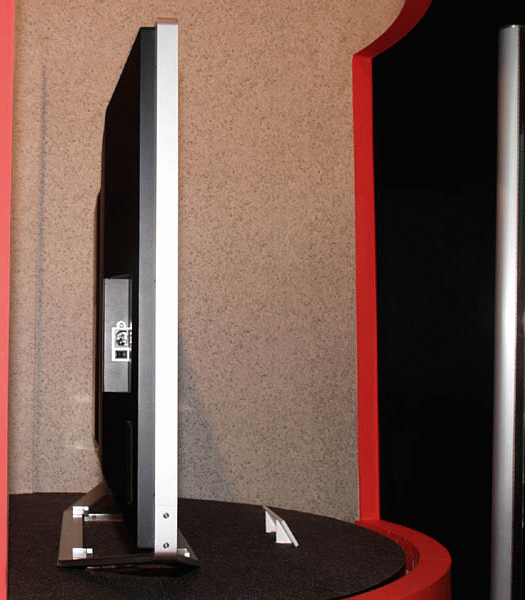 SED -- Surface-conduction electron-emitter display